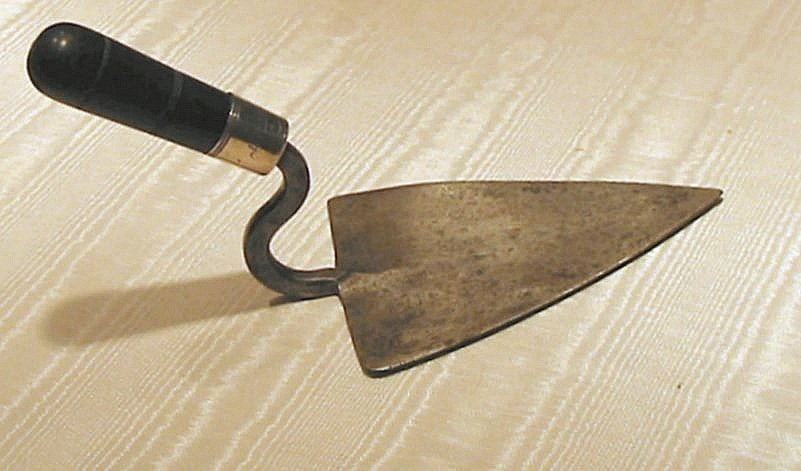 Silver trowel with which the first stone of the palace in Amsterdam was laid.